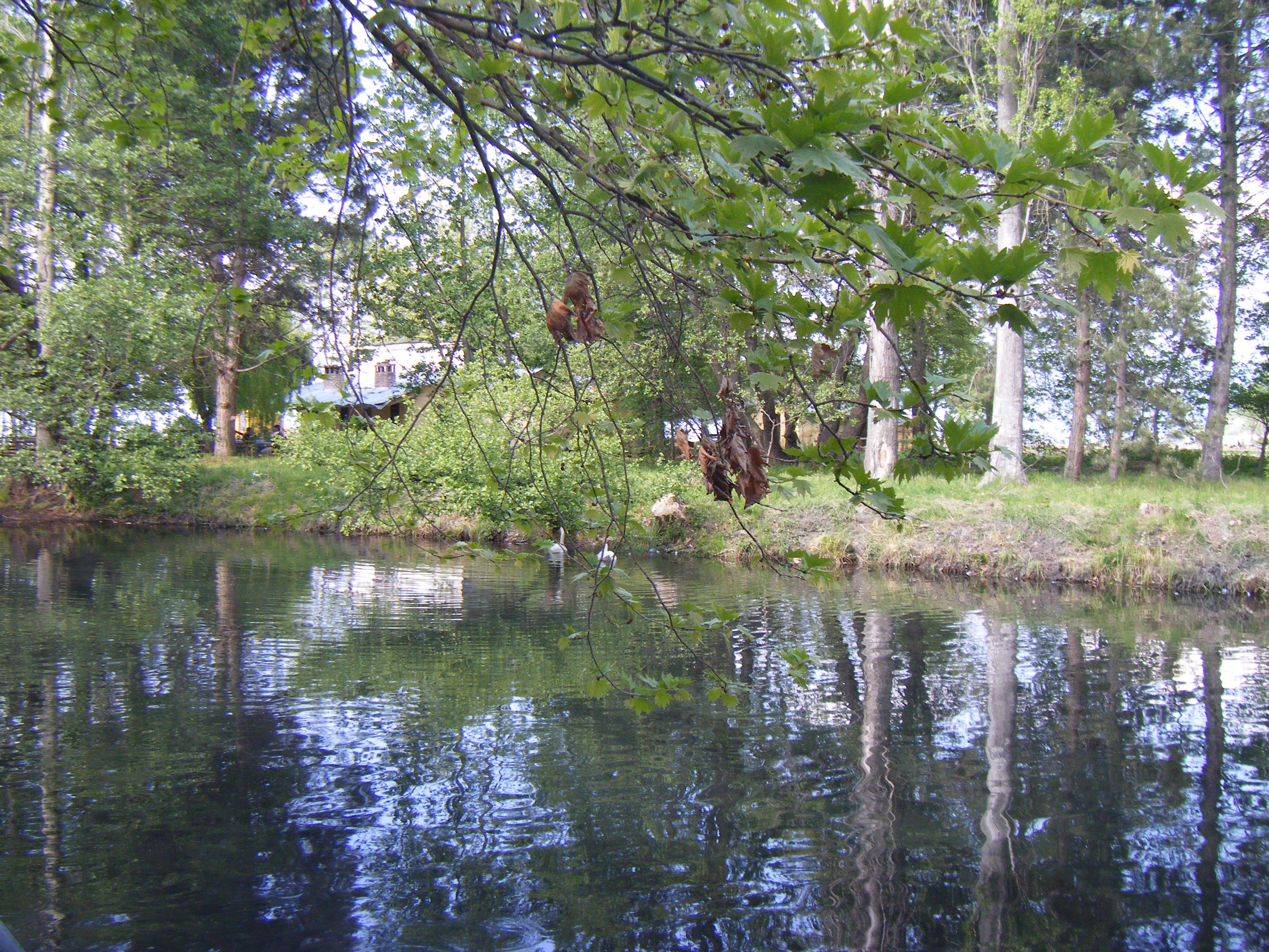 The Drilon Park in Pogradec known for its swans.